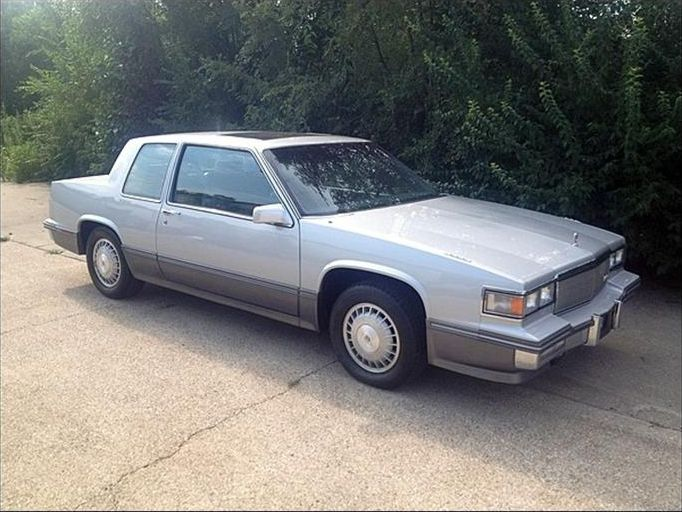 1986 Cadillac Deville Touring coupe